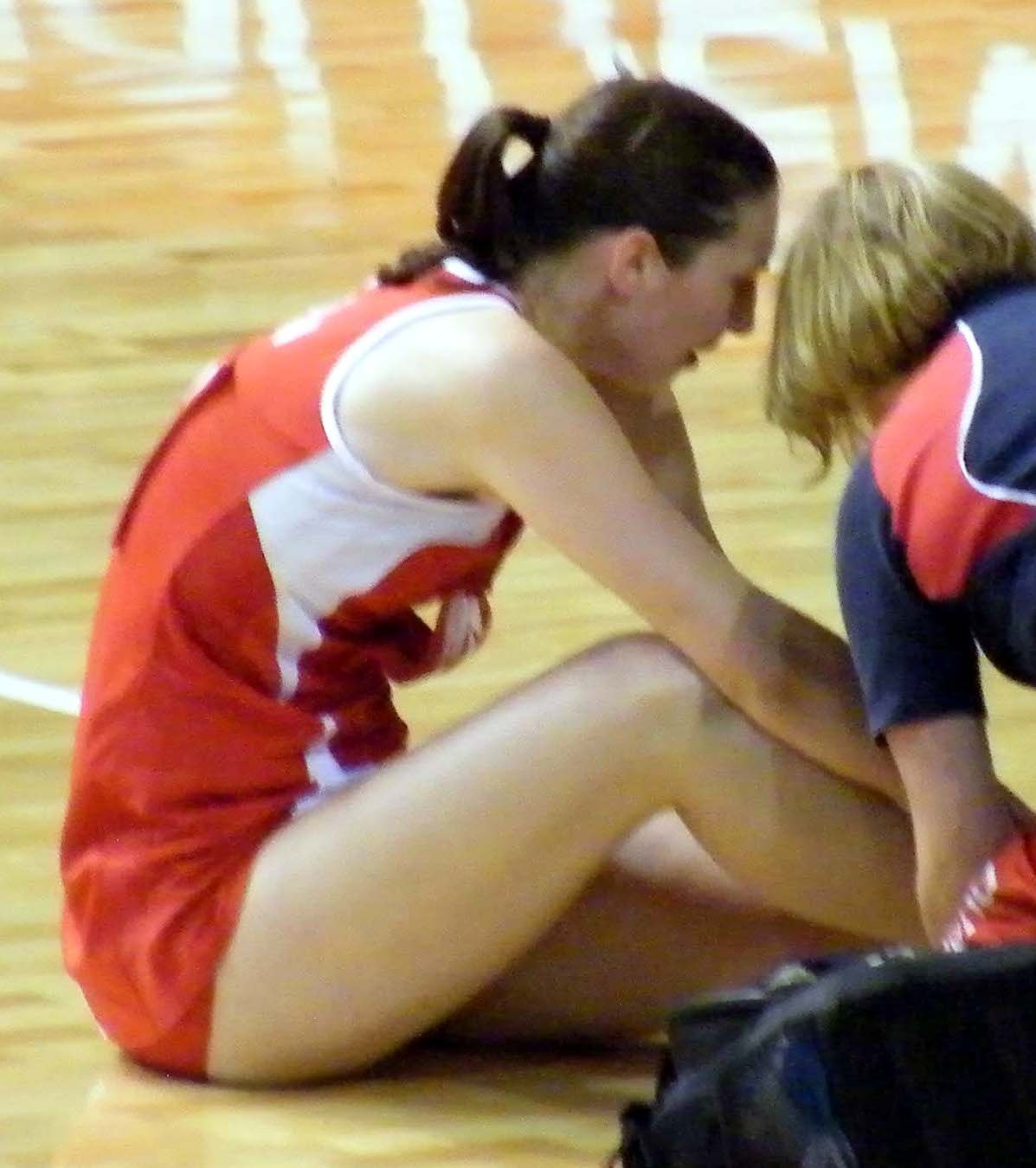 Crop of Rachel Dunn from Australia v England - Netball Test - Adelaide, October 2008. Levels adjusted.